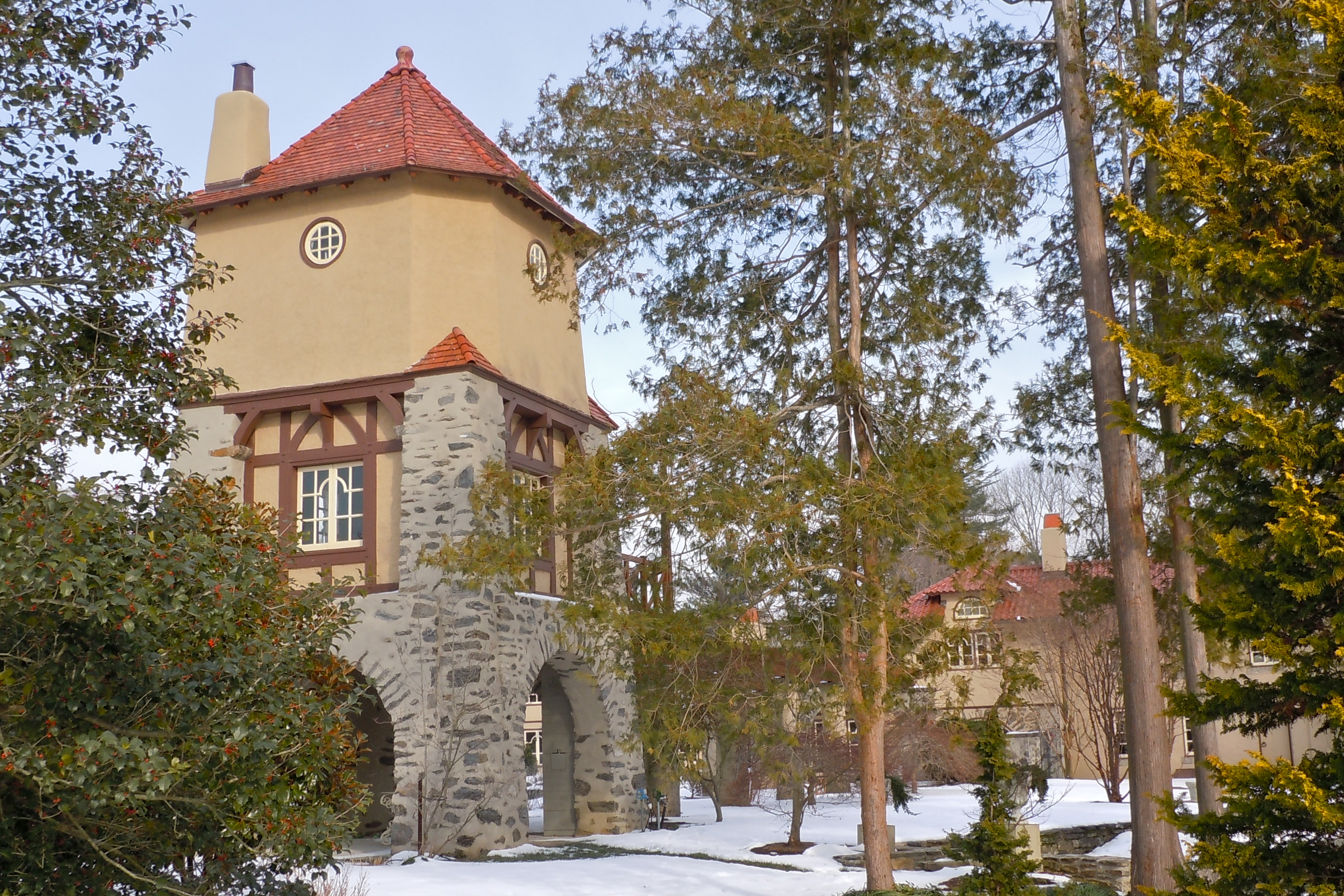 Watertower in Rose Valley Farm (Schoenhaus) in Rose Valley Historic District on the NRHP. Originally built in 1860s? but redesigned by Will Price in 1900s. Renovated in 2009.